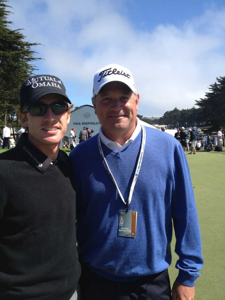 Jeff Paton with PGA Tour student Roberto Castro at the US Open 2012